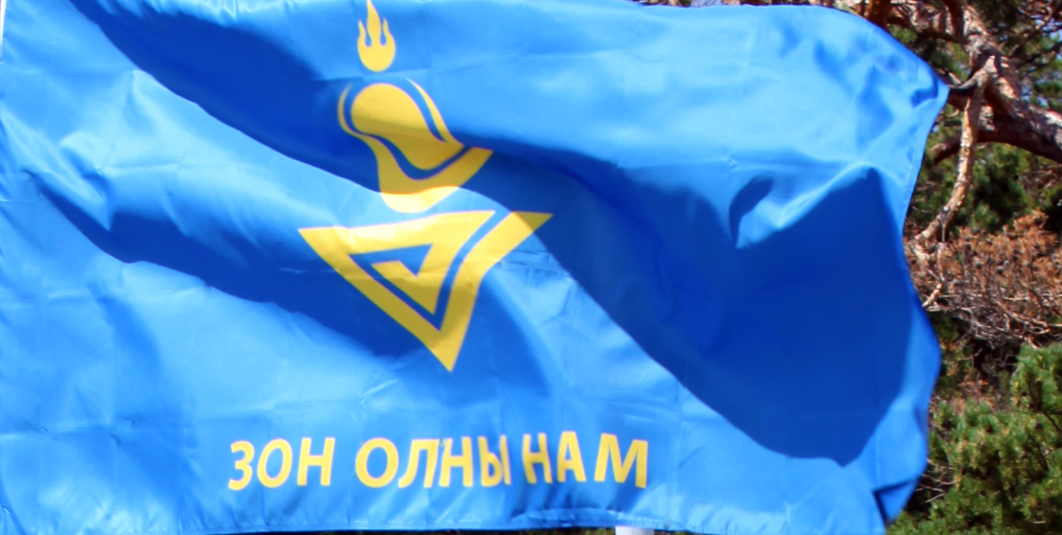 Зон Олны Нам